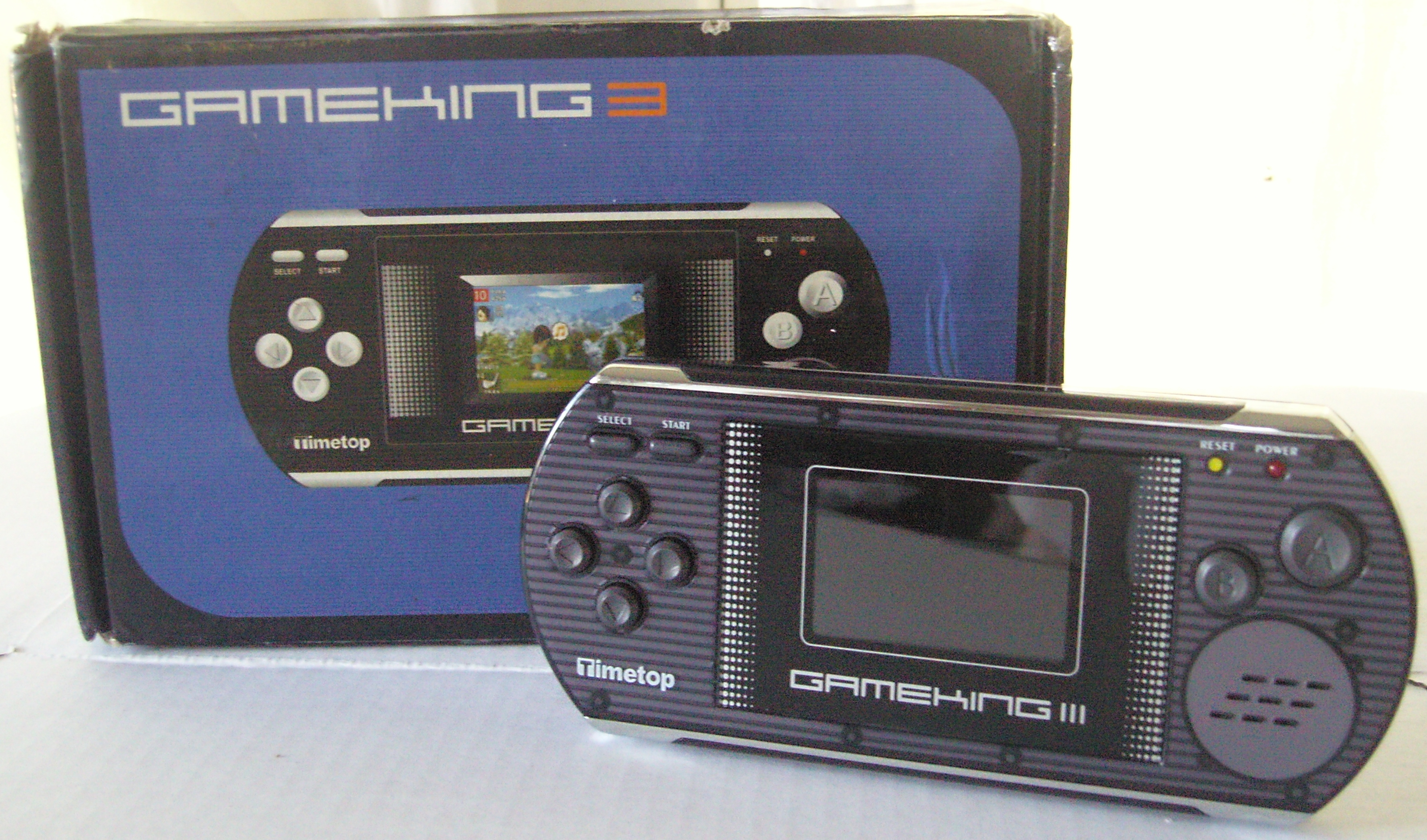 GM-221 Created by JML